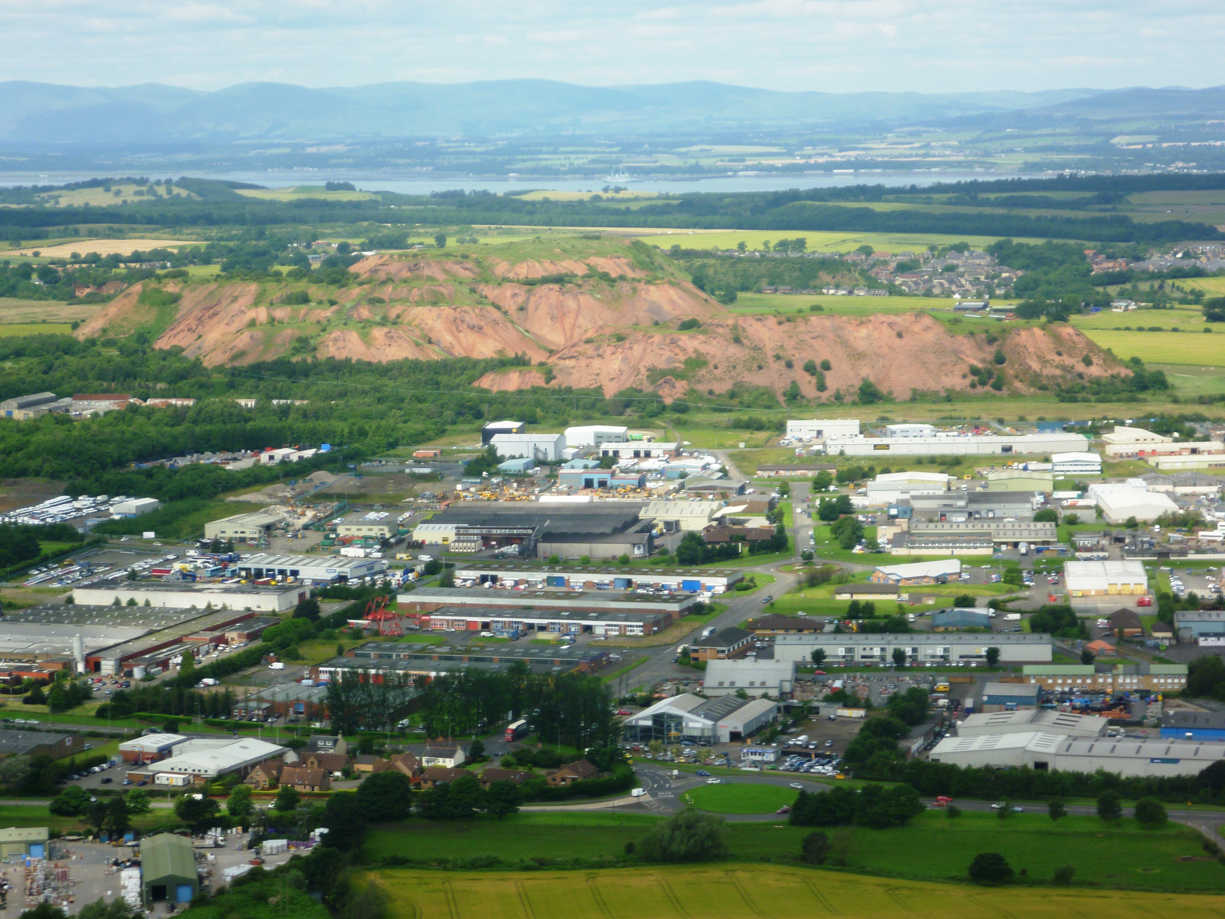 The Albyn, Faucheldean and Greendykes shale bings with the outskirts of Broxburn in the foreground and the Firth of Forth and Ochil Hills in the distance.